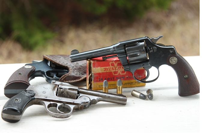 Revolvers chambered for .38 S&W (AKA .38 Colt New Police) - Colt Police Positives (Left Rear in holster & Right) and Iver Johnson Hammerless Safety (Left Front). Ammunition box - Winchester .38 Colt New Police (Center)